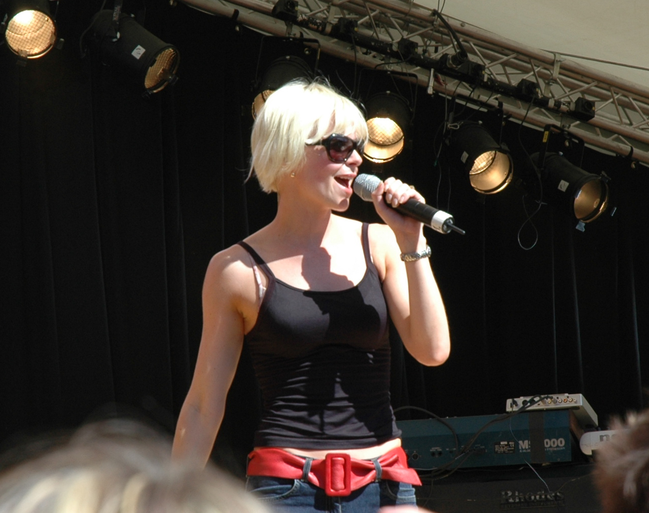 Bertine Zetlitz at a concert in Stavanger the summer of 2004.